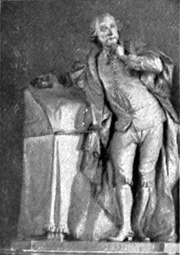 1758 statue of William Shakespeare by L. F. Roubiliac